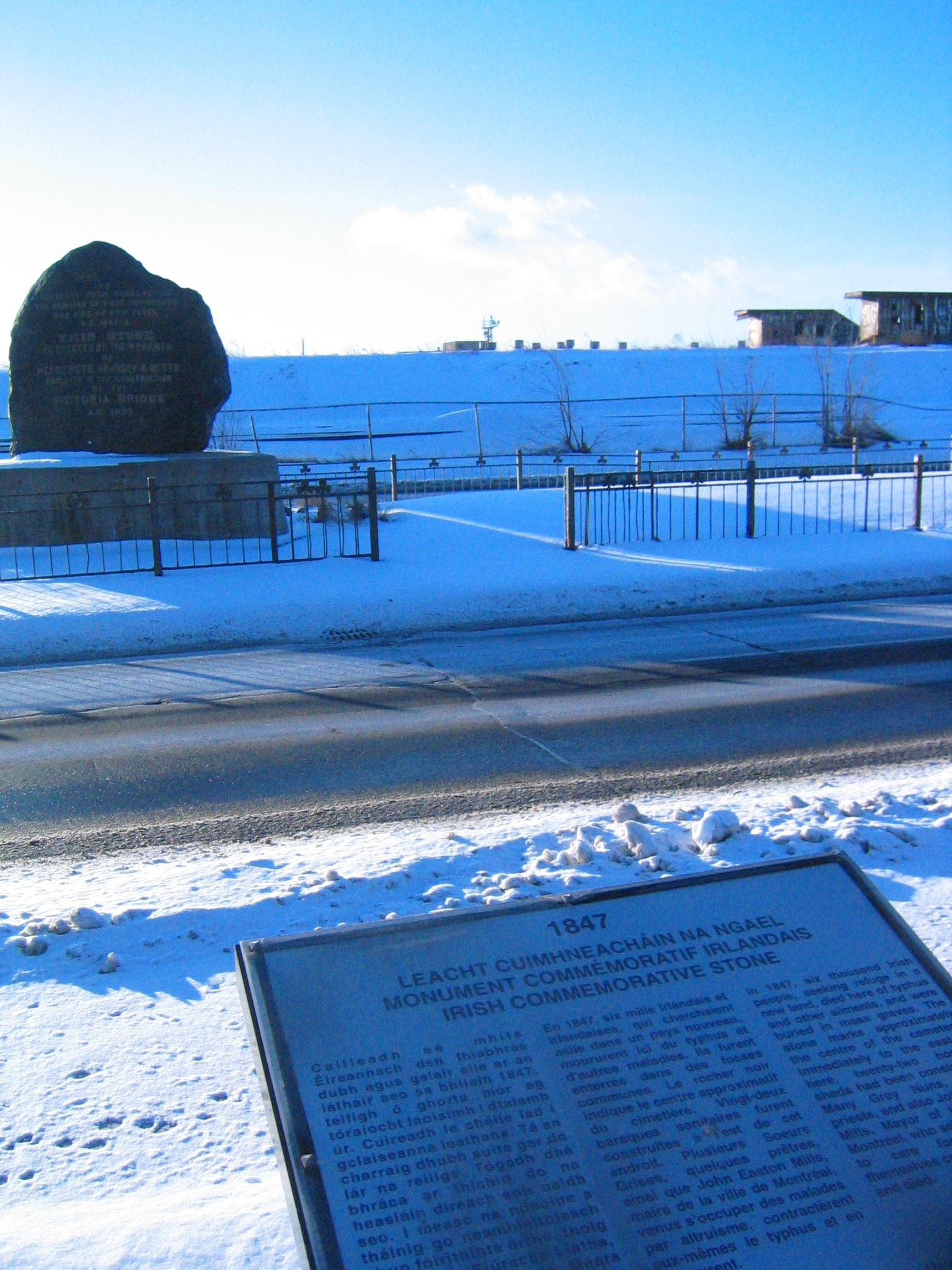 The black rock, the abandoned Victoriatown train stops and writings to explain it all. (Montreal, Canada.)